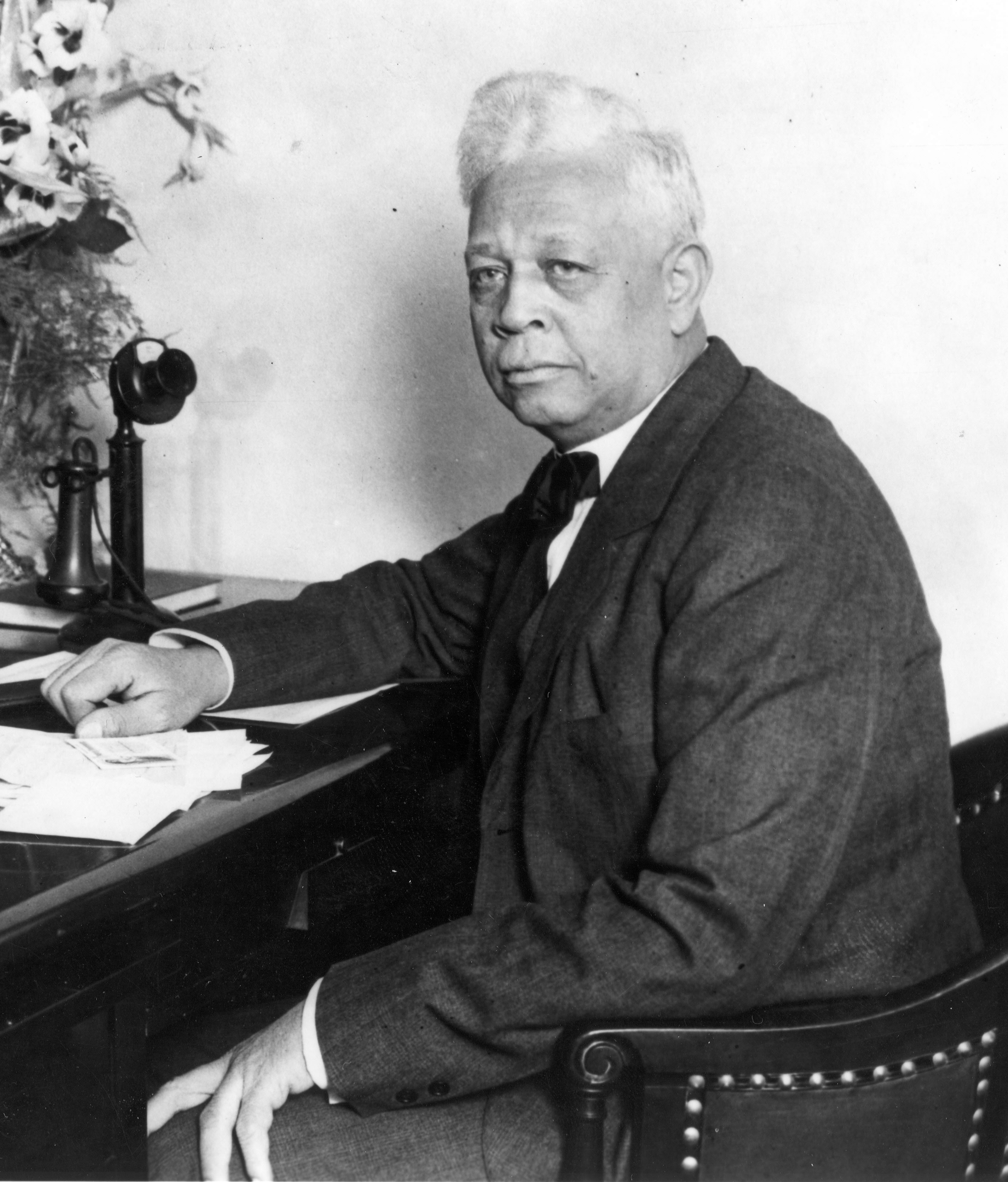 Oscar Stanton De Priest, member of the United States House of Representatives.